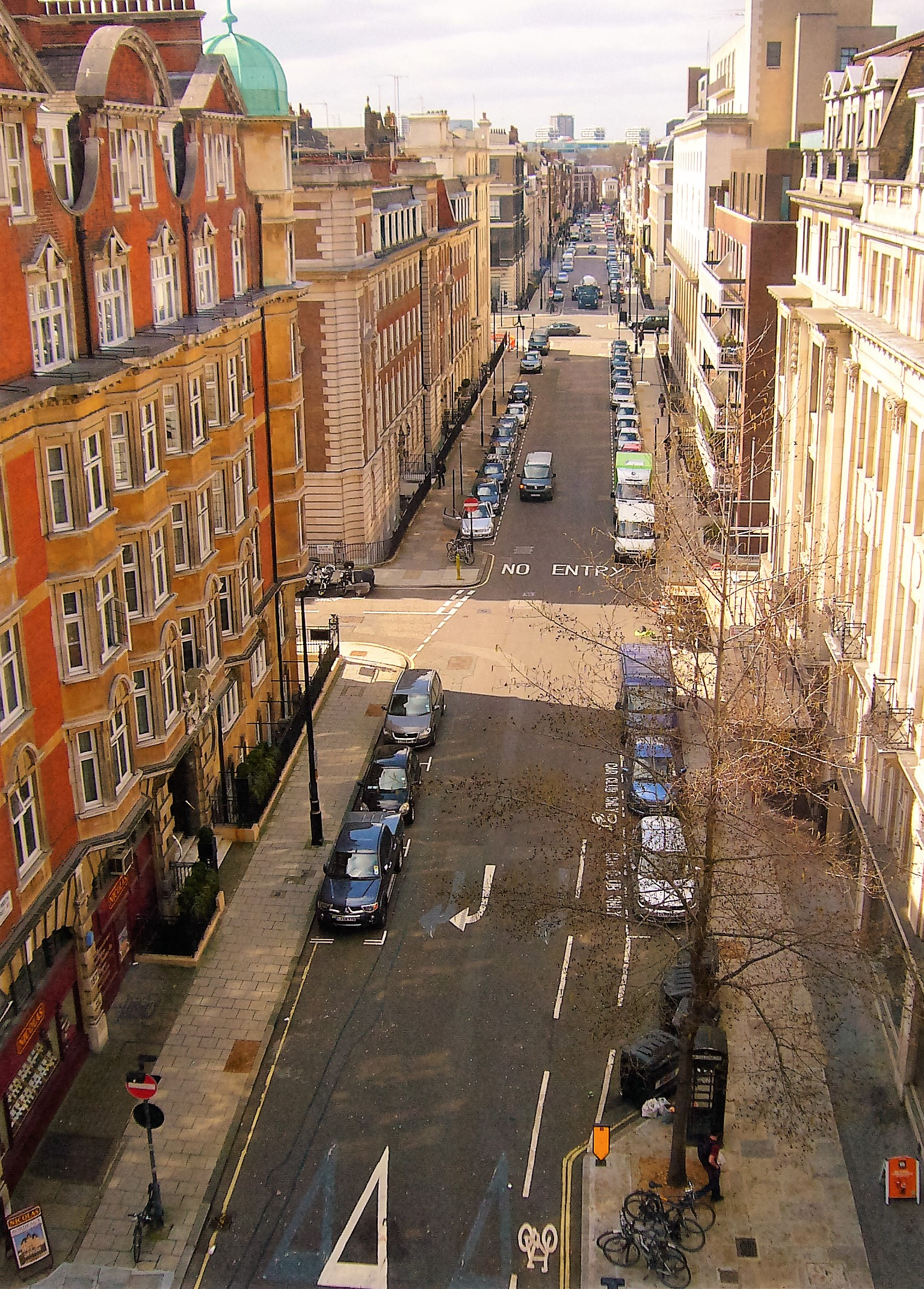 Looking west from Great Portland Street down Marylebone's Weymouth Street in 2010